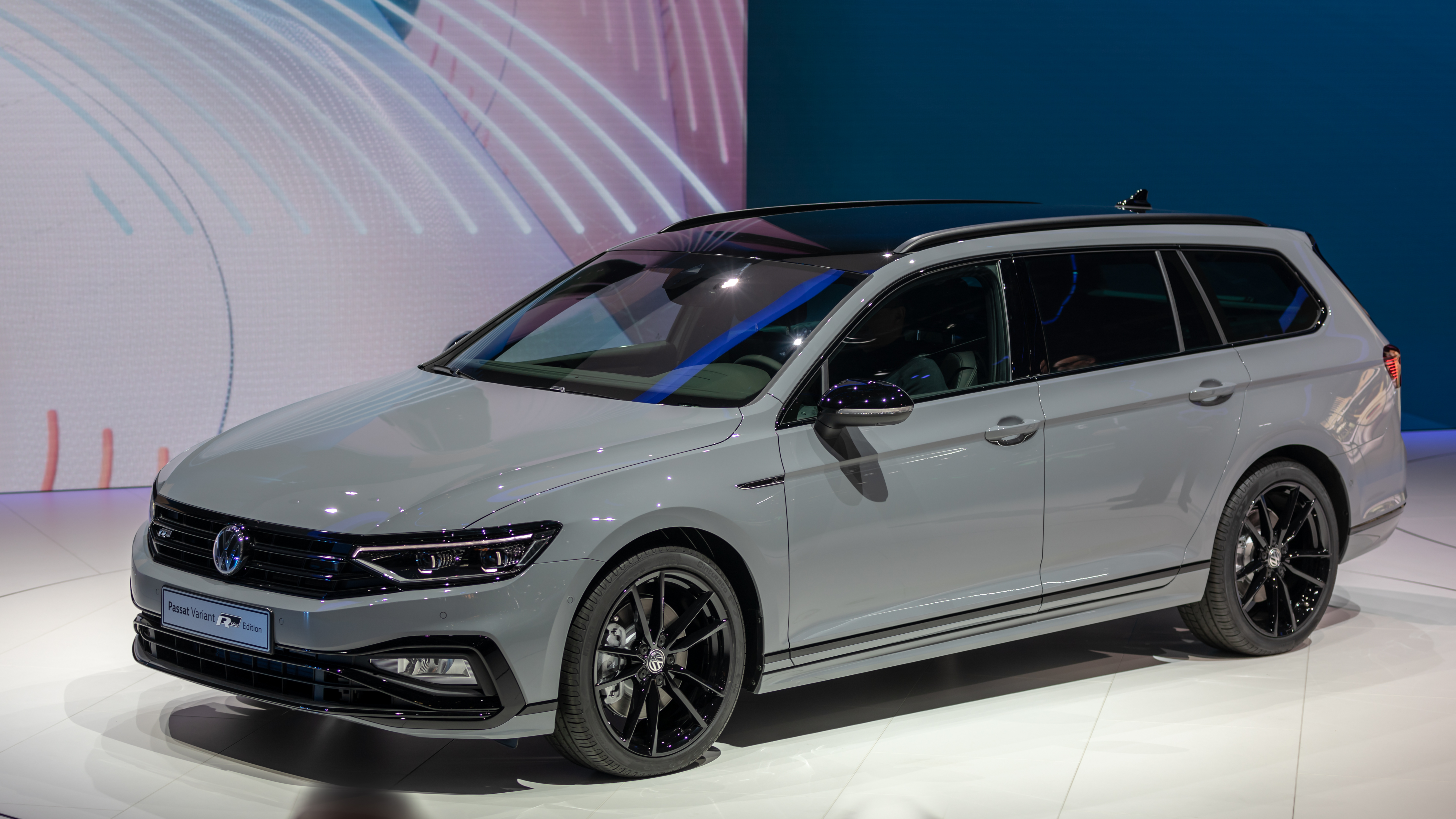 Volkswagen Passat Variant R-Line at Geneva International Motor Show 2019, Le Grand-Saconnex